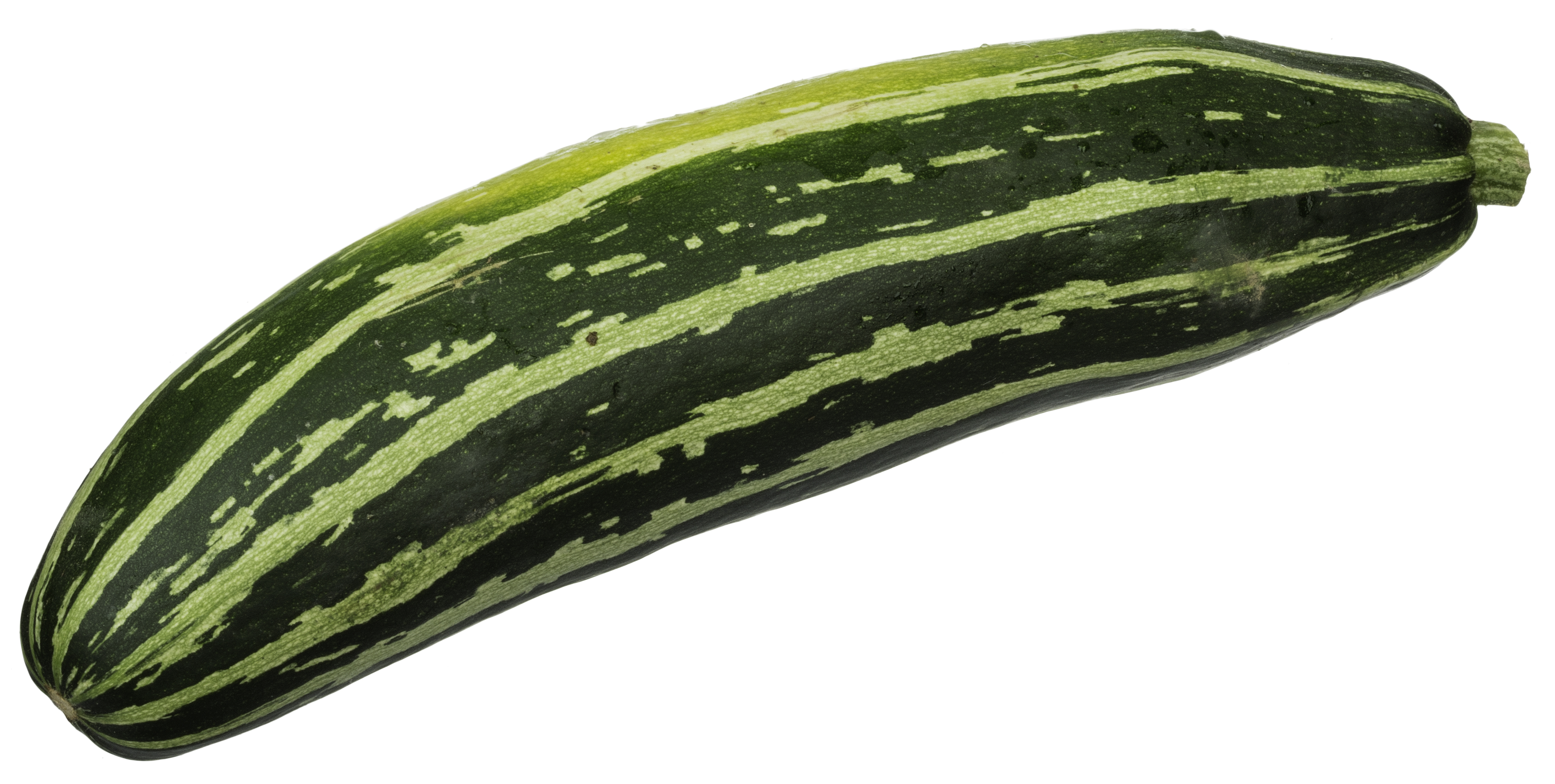 A bundle of rhubarb, from an organic food co-op.